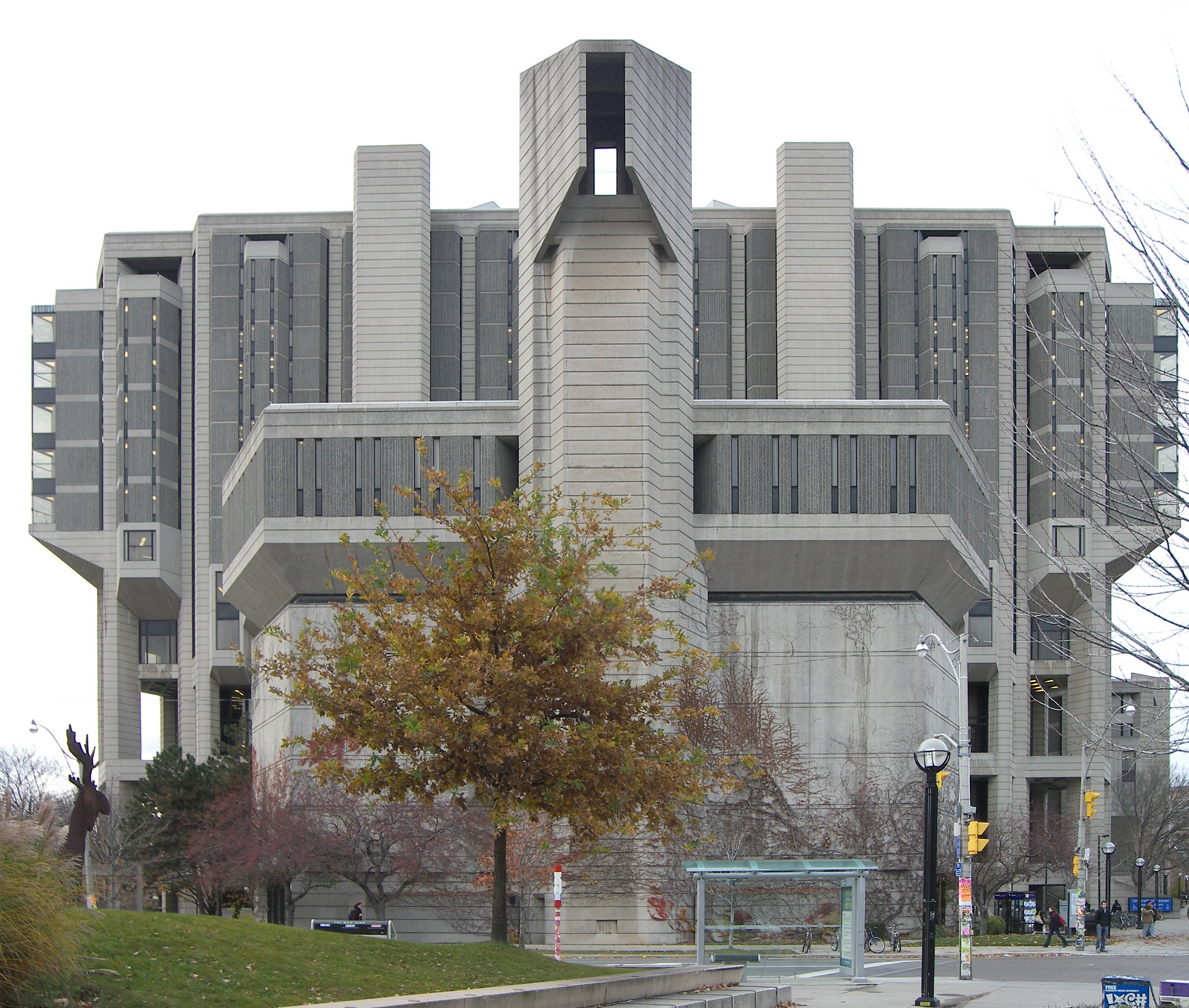 Please see filename